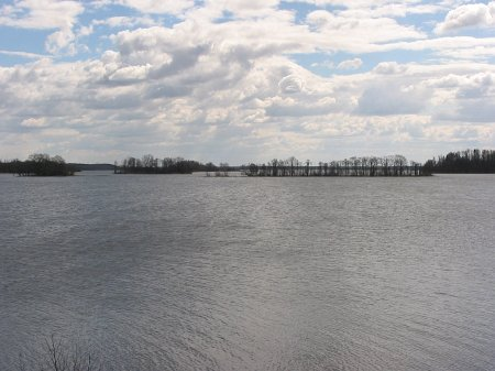 This work is free and may be used by anyone for any purpose. If you wish to use this content, you do not need to request permission as long as you follow any licensing requirements mentioned on this page.